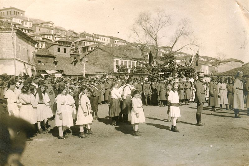 Celebration in Ohrid during WWI